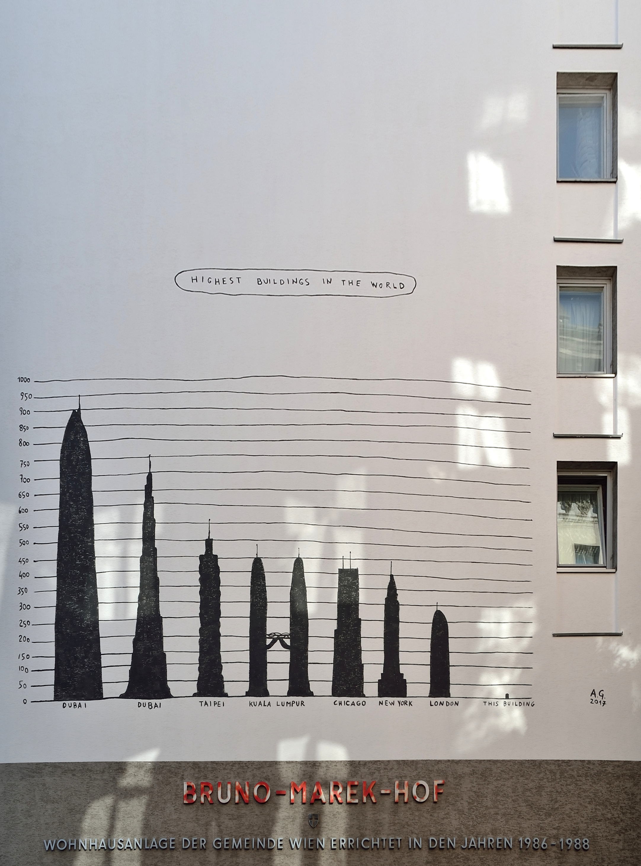 Das Projekt „Buildings on Buildings“ (Highest Buildings in the World) des Künstlers Aldo Giannotti umfasst drei Interventionen in Wien. Die zweite Wandzeichnung ist auf der Seitenwand des Bruno-Marek-Hofs in Wien Mariahilf zu sehen. [1] This media shows the Vienna residential building (Gemeindebau) with the ID 293.